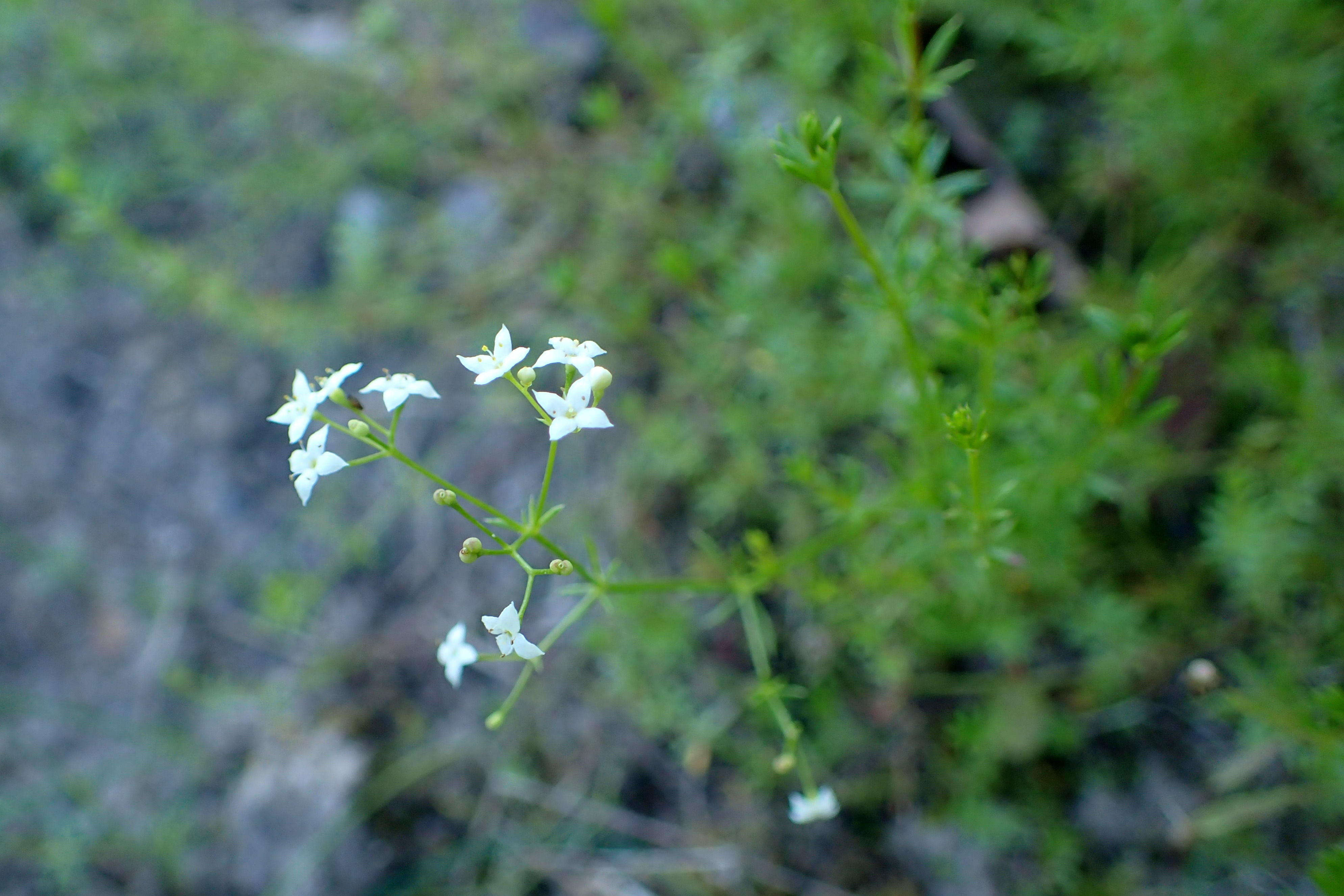 Galium valdepilosum in PAN Botanical Garden in Warsaw